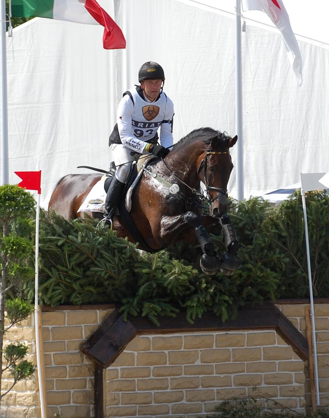 Winner of the 2011 CCI 4*-event Luhmühlen: Andreas Dibowski with Euroridings Butts Leon